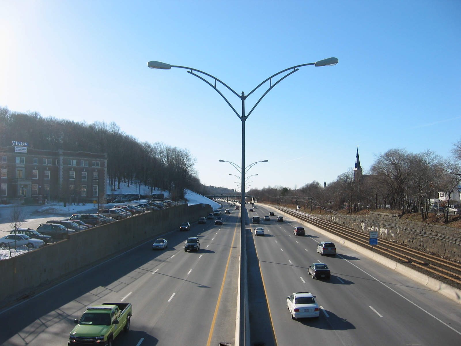 The Newton, Massachusetts section of the Massachusetts Turnpike.